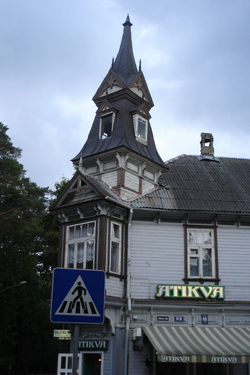 House in Jūrmala.